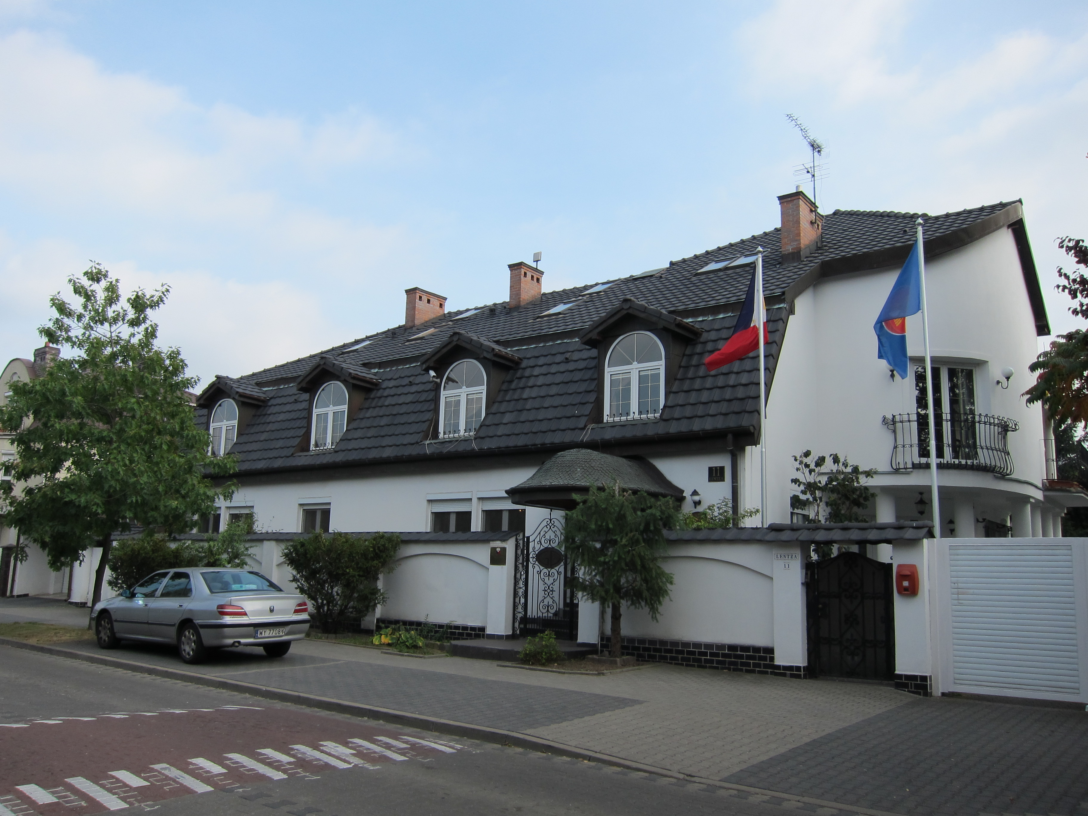 Exterior of the Philippine Embassy in Warsaw, Poland. Tagalog: Labas ng Embahada ng Pilipinas sa Warsaw, Polonya.